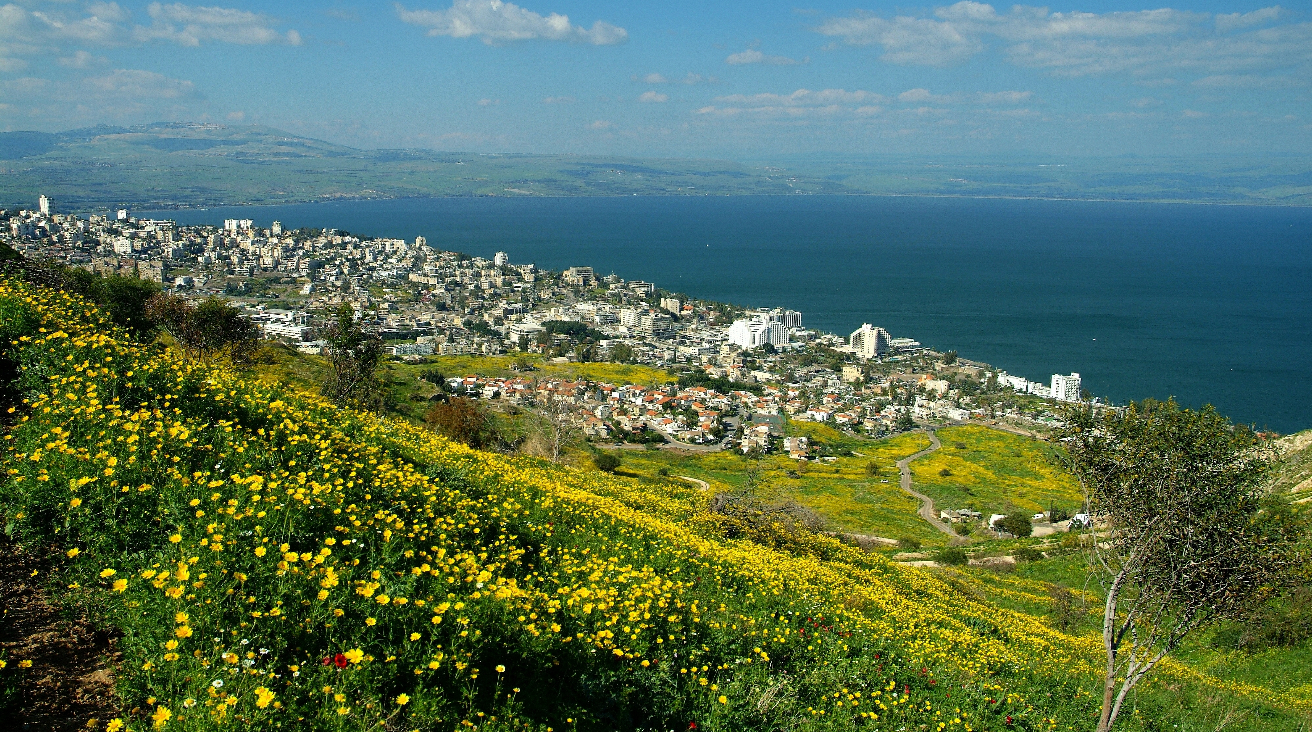 General view of Tiberias